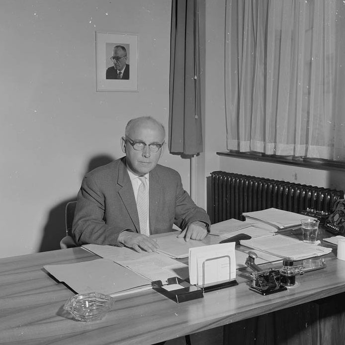 Prof. dr. ir. J.C. Vlugter